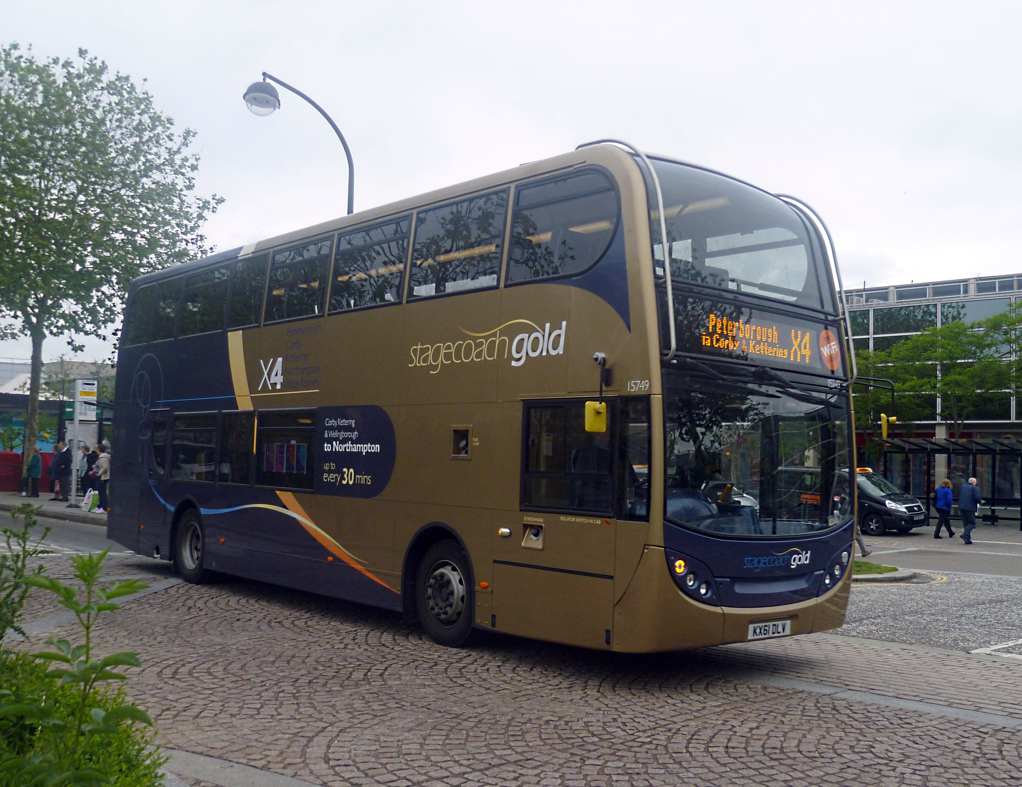 A Stagecoach Enviro 400 arriving at Central Milton Keynes with an X4 service from Peterborough.